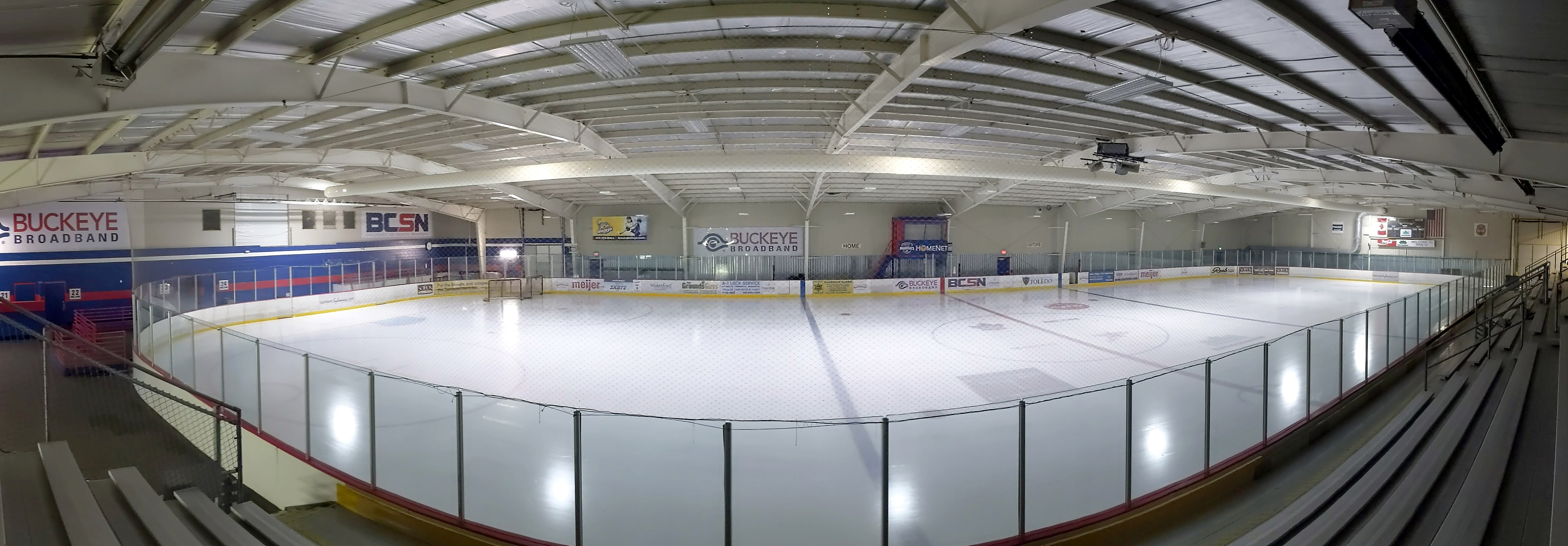 A panoramic photograph of Rink #2 in the Sylvania Tam-O-Shanter sports complex in Sylvania, Ohio